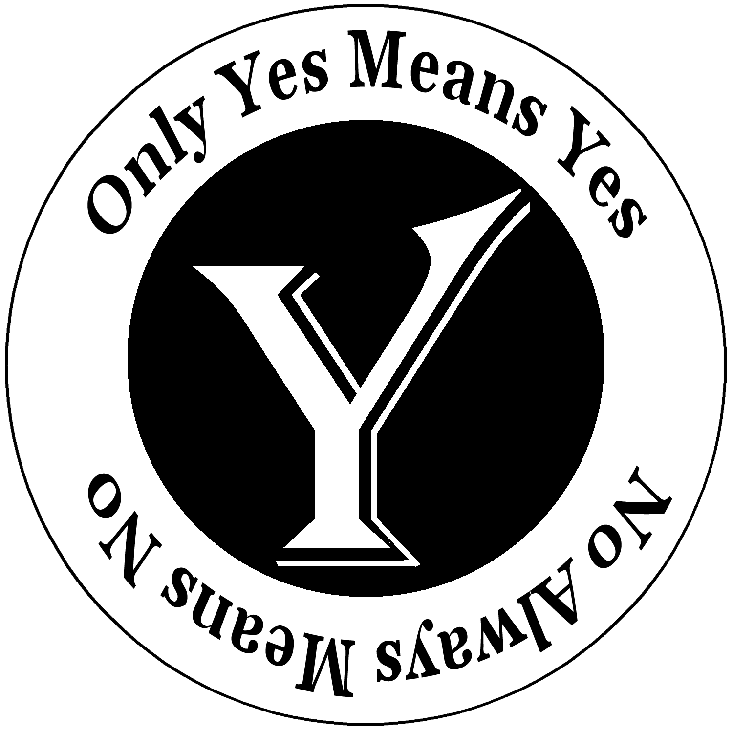 This image is part of the Only Yes Means Yes campaign, a campaign to raise awareness about active consent, communication, and rape. It was created based on a graphic that was intended for a Fetlife group in support of this campaign and ultimately rejected by the group. Joreth took the basic concept of a Y in a circle with the slogan around the circle and came up with this final design. The group sprang up around the phrase when Joreth mentioned it in a blog reaction to a Fetlife member's story about sexual assault within the Fetlife community. Although this symbol sprang up from a discussion in the BDSM community, the concept is applicable to all people and is not intended to be kink-specific. Yes Means Yes was originally a book about rape awareness, rape culture, feminism, and female sexual empowerment called "Yes Means Yes!: Visions of Female Sexual Power & a World Without Rape " by Jaclyn Friedman and Jessica Valenti. The idea of the concept is that only active consent equals consent. People must actively consent to sexual activity or else it doesn't count as consent. Passive consent is too easily mistaken for unspoken non-consent and active consent makes people feel in control of their own sexuality. Several variations have created, including: making the Y red, to match the red colored title of the book that inspired the symbol; changing the black circle to a patterned black circle; coloring it black and blue stripes from the BDSM Pride flag; replacing the solid black circle with a black version of the BDSM Triskelion; removing the bottom "No Always Means No" and instead repeating the top "Only Yes Means Yes"; shortening the phrase to "Yes Means Yes" from the book; and using a red Y by itself without any circles or words.